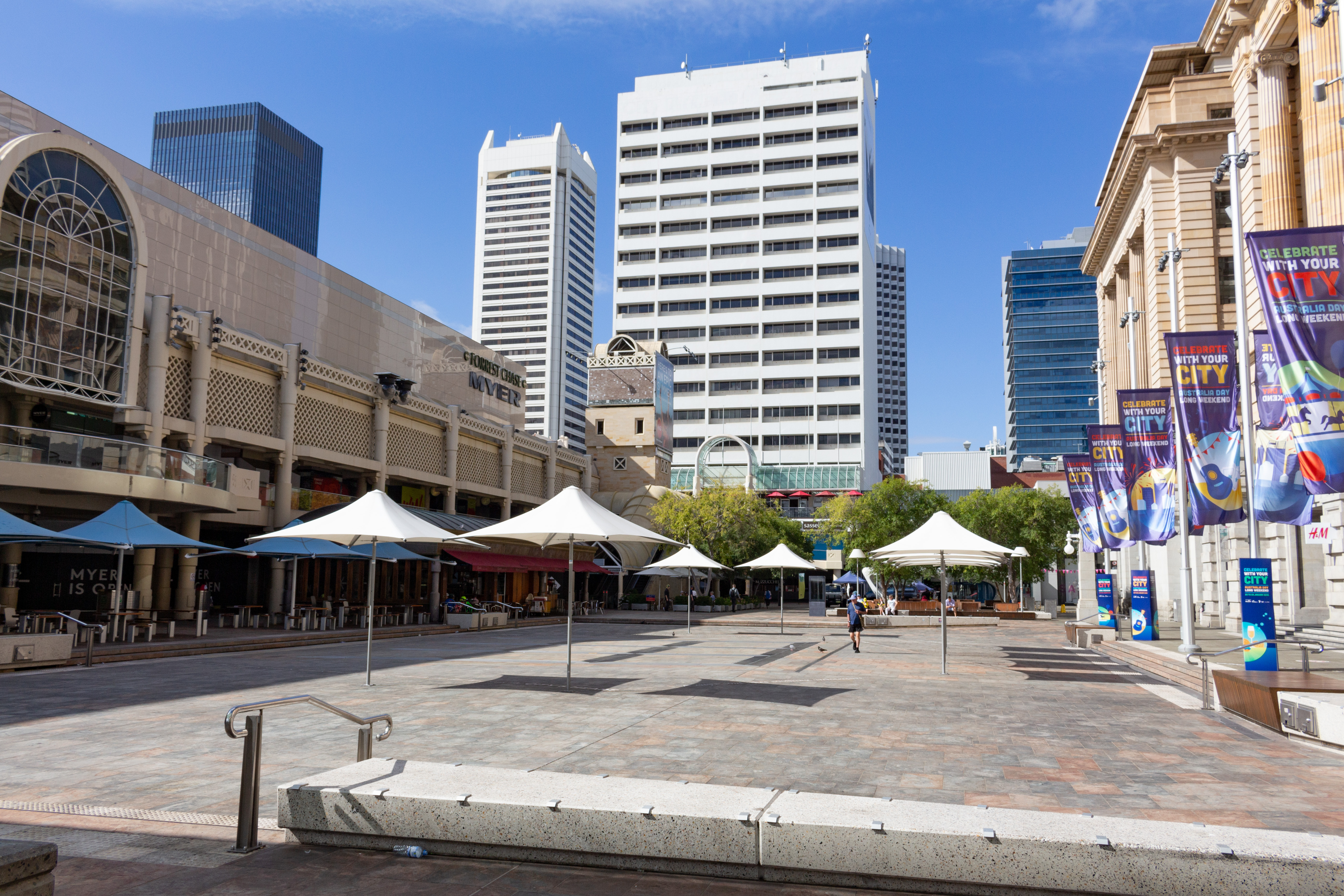 Forrest Place in Perth. Facing southward.